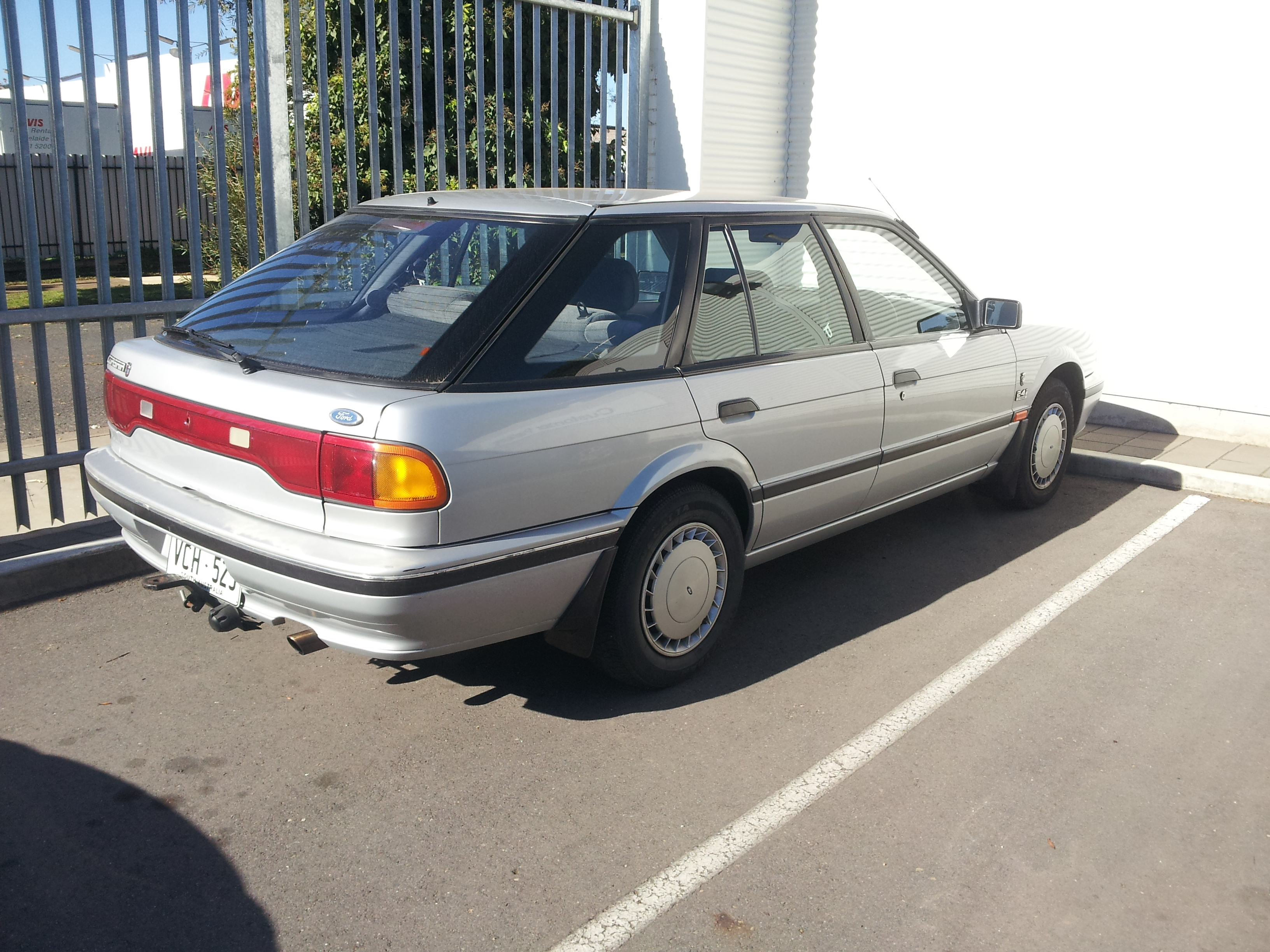 These were simply a rebadged Nissan Pintara (Bluebird) that were sold only in Australia. The car was meant to be a placement for the Mazda 626 based Ford Telstar, but instead, Ford Australia kept the Telstar and Corsair together to cover both the lower and higher segments of the medium size car market. It only lasted until 1992, which is when Nissan closed it's Australian manufacturing plant and with it the Nissan Pintara also died. They were sold as a sedan and hatchback and as a 2.0L or 2.4L 4 cylnder engines. The hatchback always reminded me of a cross between a small wagon and a hatchback and nowadays is super rare!! The Ford version never sold in the same numbers as the Nissan, mainly because people bought the larger Telstar instead.